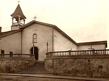 Mission San Luis Obispo de Tolosa c1909